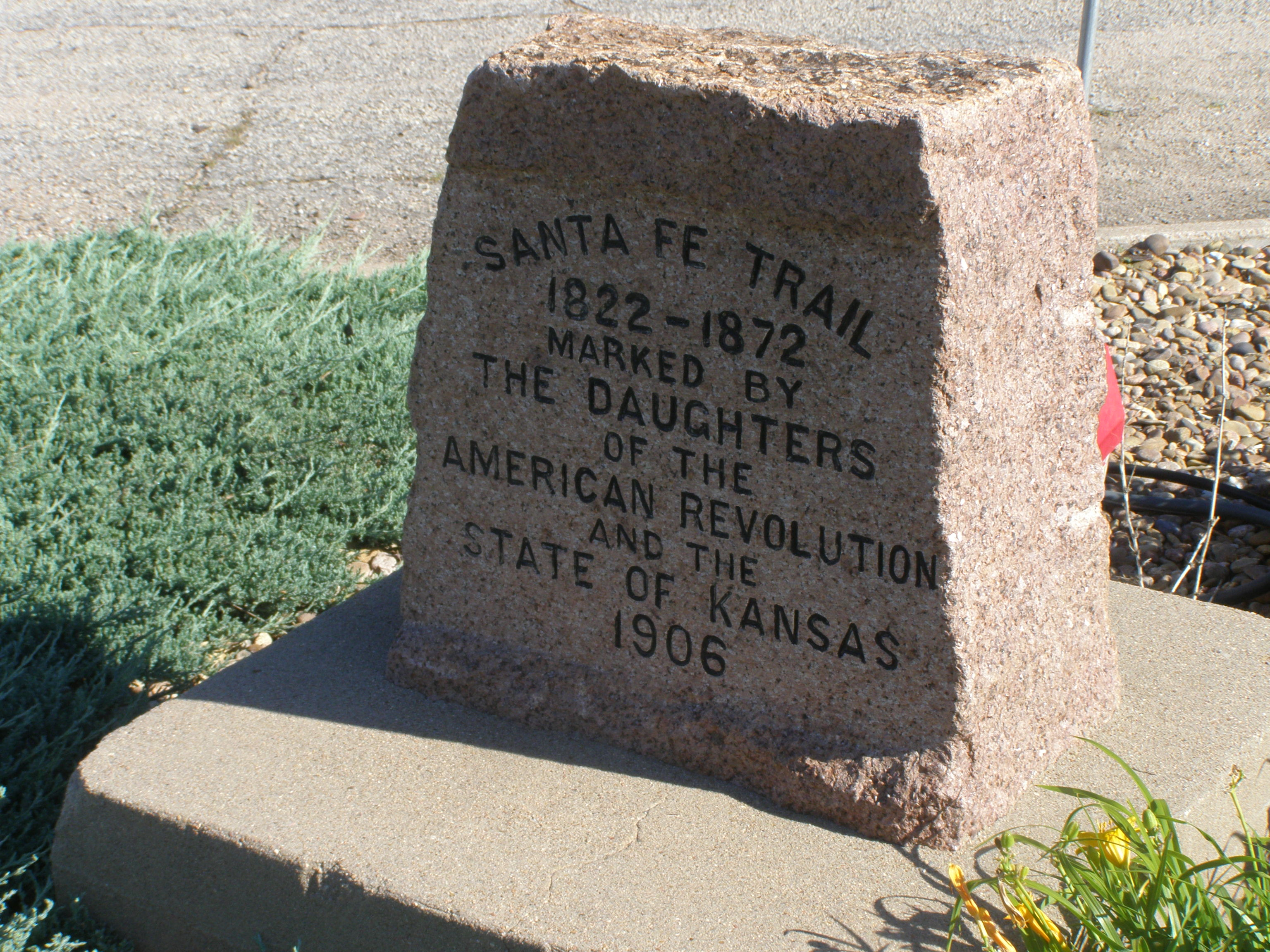 Santa Fe Trail 1822-1872 (DAR marker) in Ellinwood, Kansas.